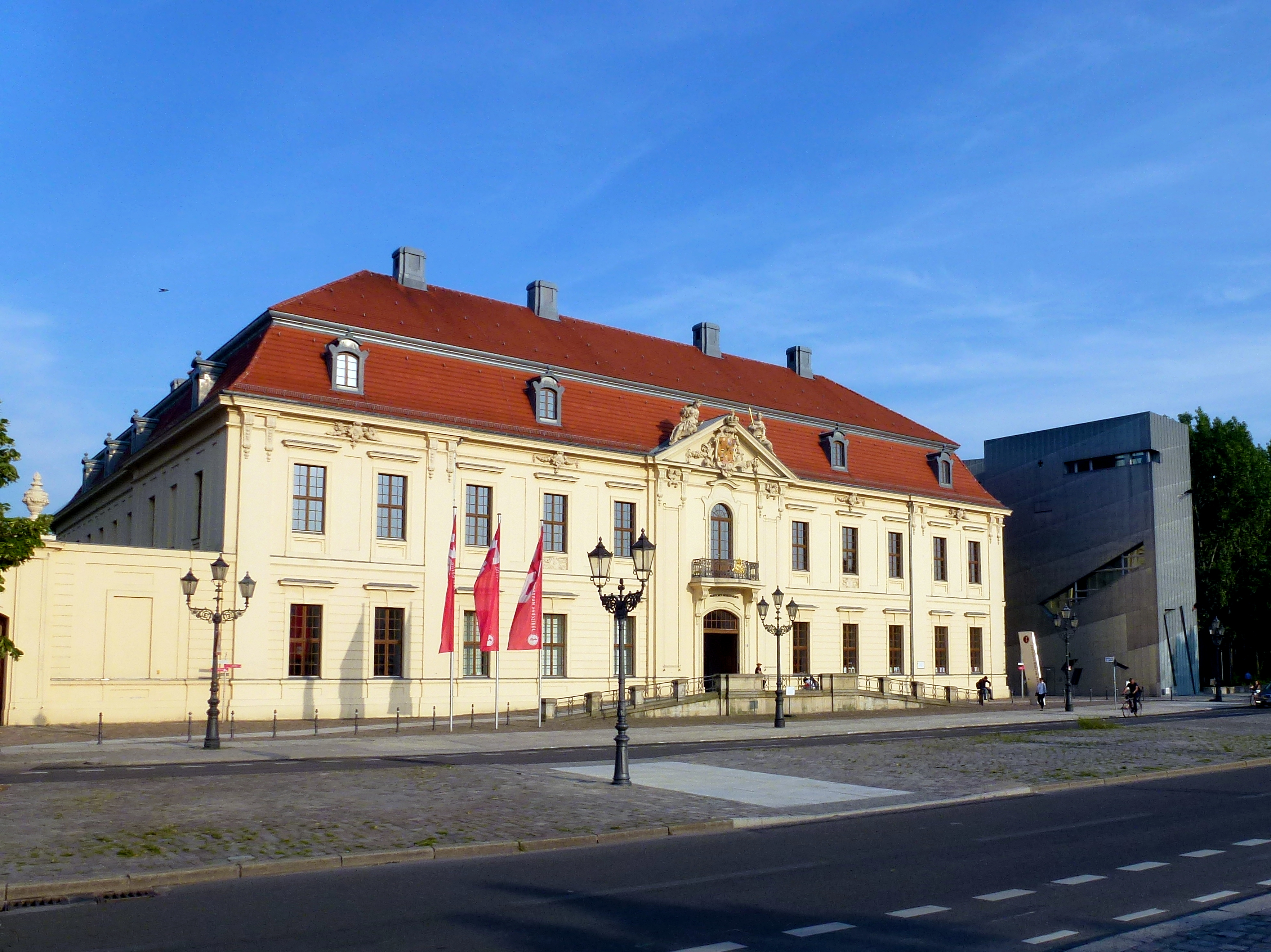 Berlin-Kreuzberg Lindenstraße Kollegienhaus